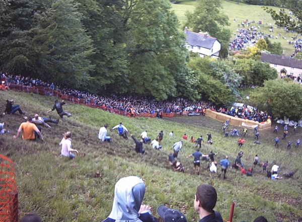 A race at The Cooper's Hill Cheese Rolling and Wake